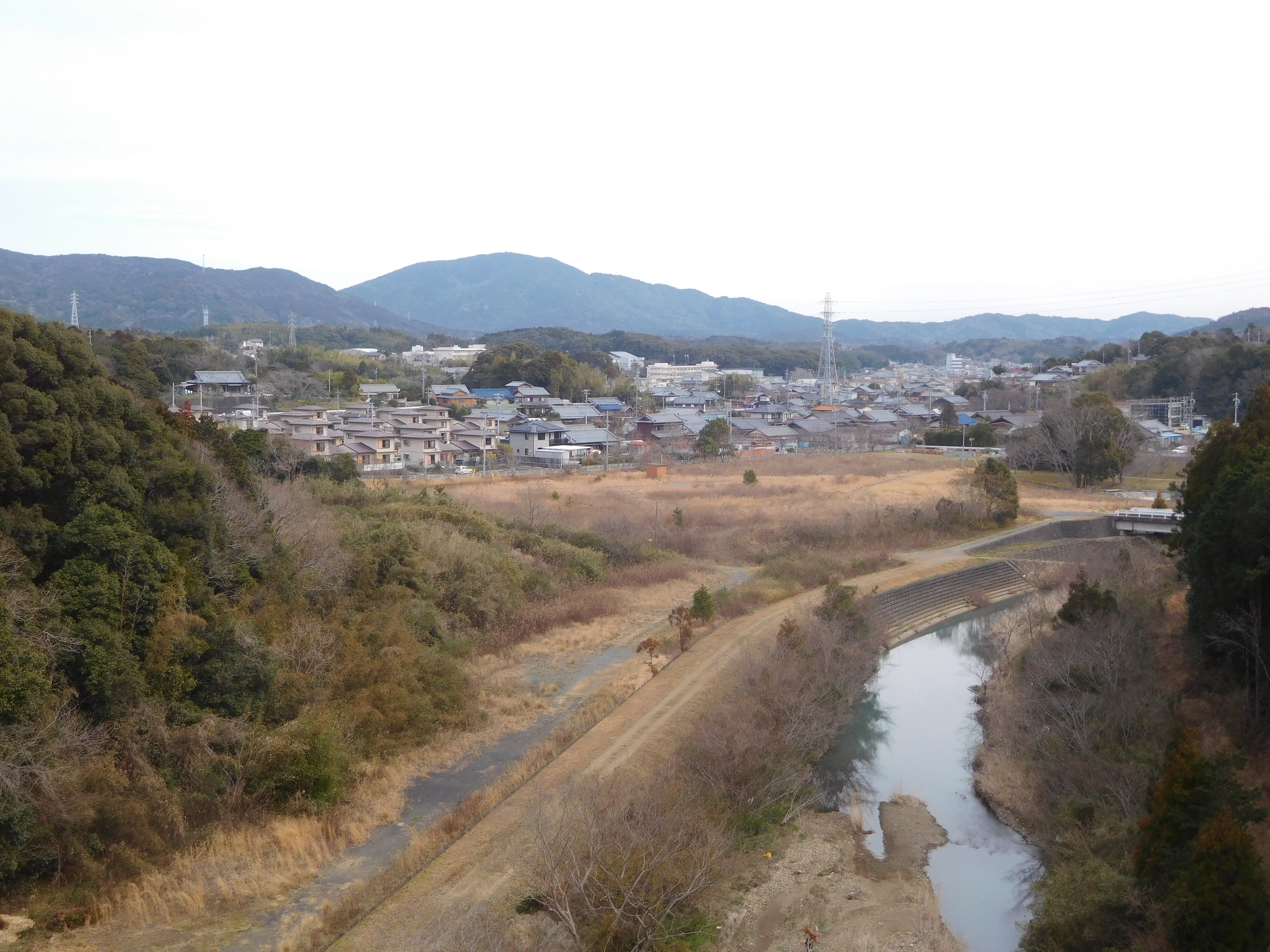 This is a landscape of Isobecho-Hasama, Shima city, Mie prefecture, Japan.